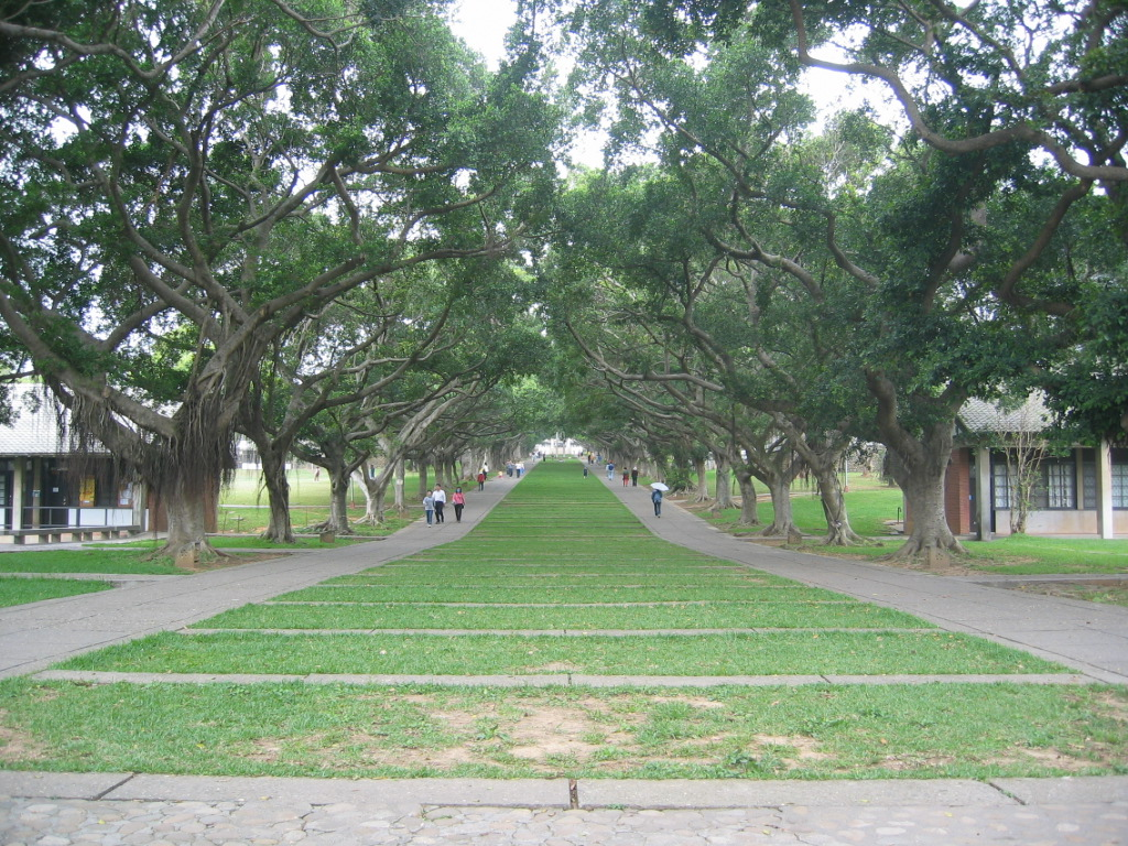 東海大學文理大道， 2006年4月2日，mingwangx攝於台中。 Wen Li Da Dao in Tunghai University. Taken by mingwangx on April 2nd, 2006.